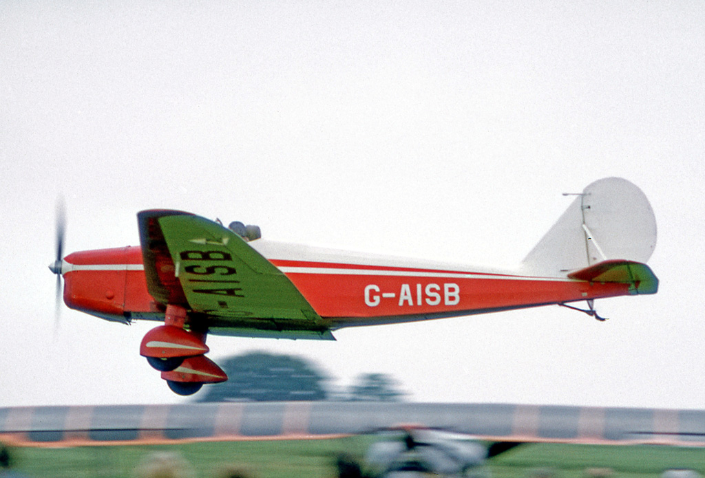 Tipsy B series 1 G-AISB at Sywell airfield England in 1973